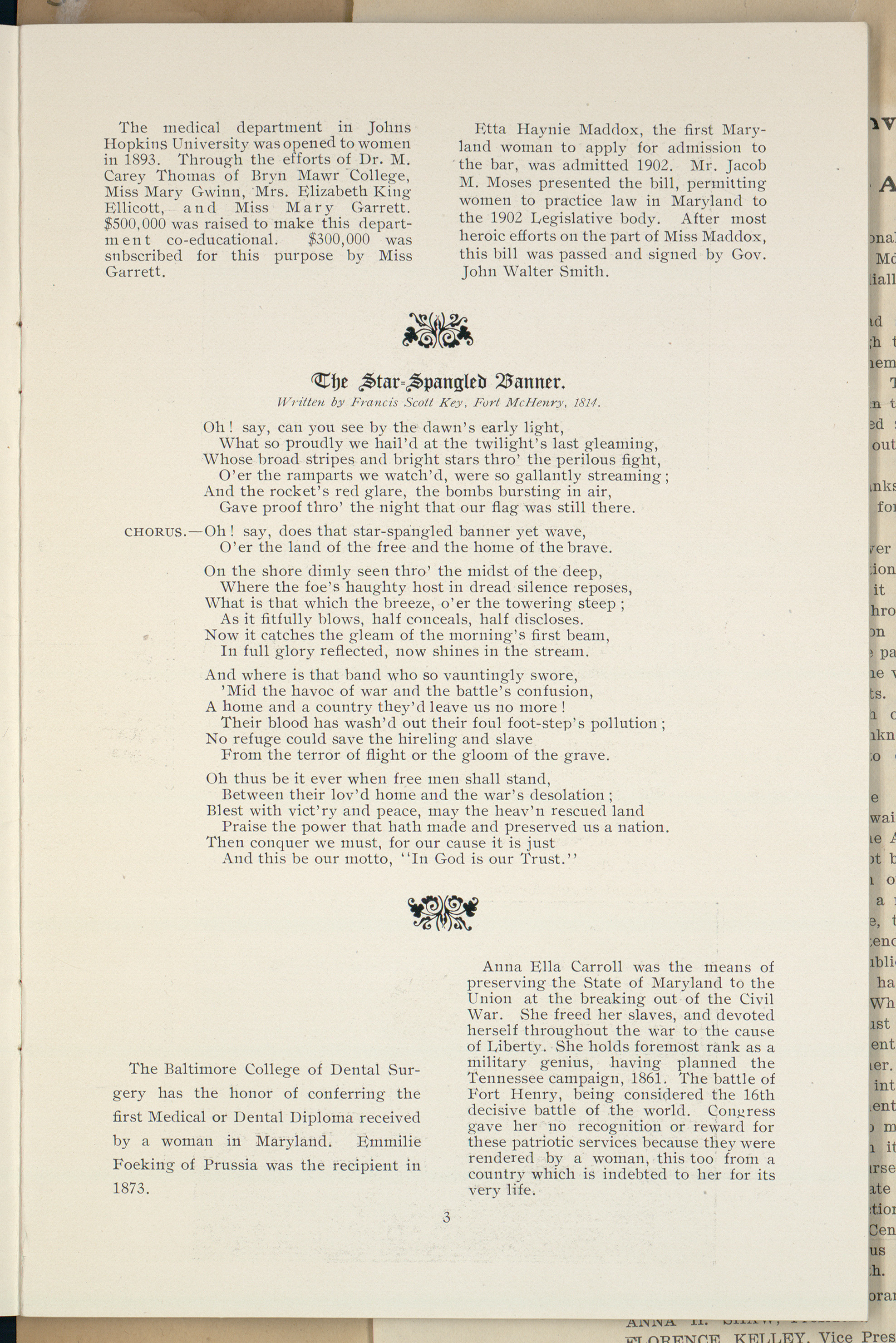 Convention Booklet provides historical facts including the firsts for famous Baltimore women. National American Woman Suffrage Association. (1906) 38th Annual Convention of the National American Woman Suffrage Association, Baltimore, Md. February 7-13. [Manuscript/Mixed Material] Retrieved from the Library of Congress